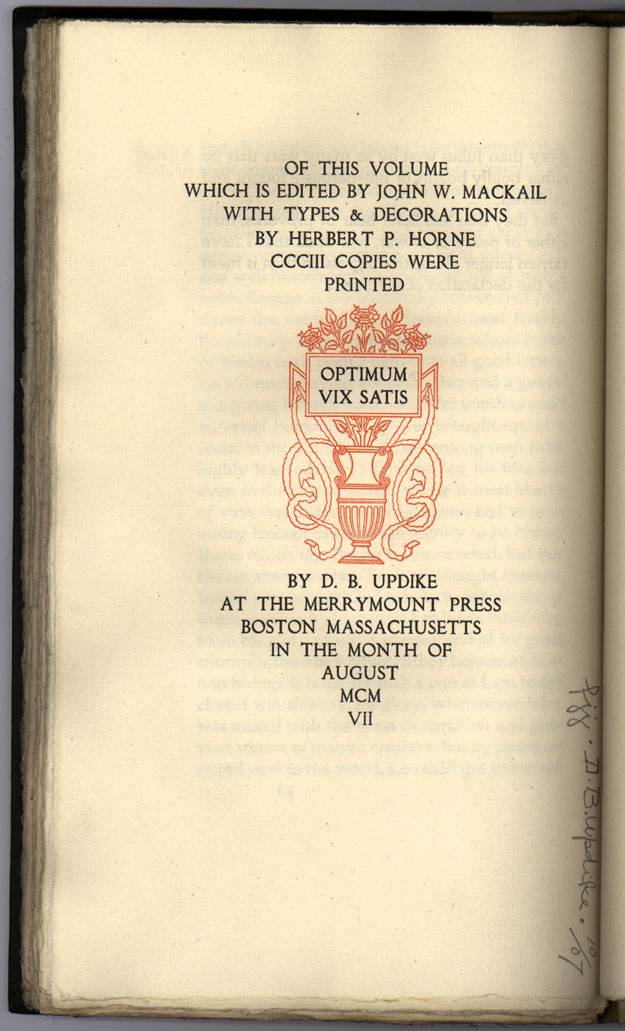 Against War, by Erasmus, printed by the Merrymount Press, Boston, Massachusetts, 1908, colophon on last page of volume. Edited by John W. Mackail; translator unidentified; types and decorations by Herbert P. Horne. Copyright has expired on the text of this book. No copyright was asserted in the image itself, which was placed online by the Springfield, Massachusetts, library system.